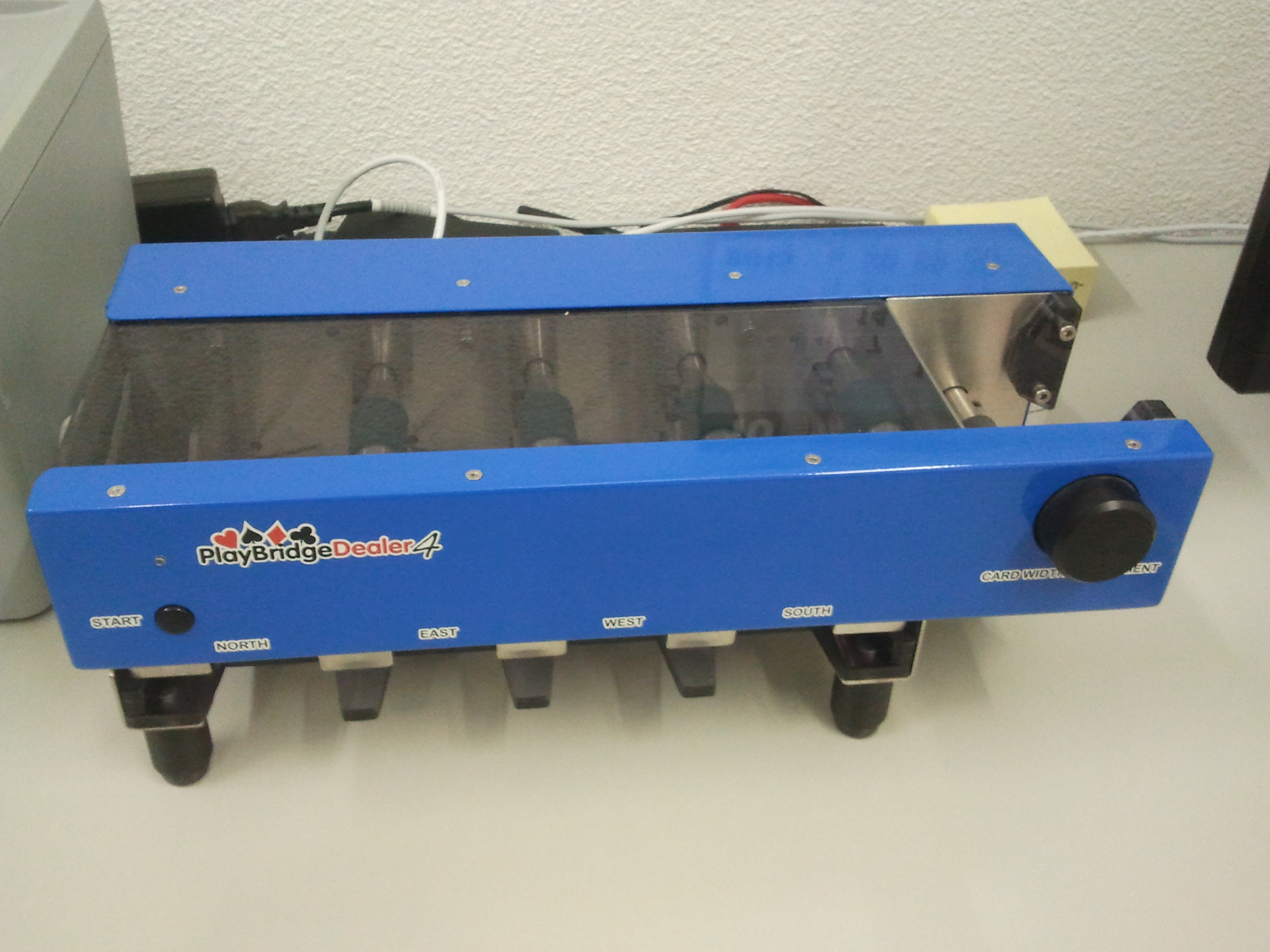 Bridge Dealing Machine